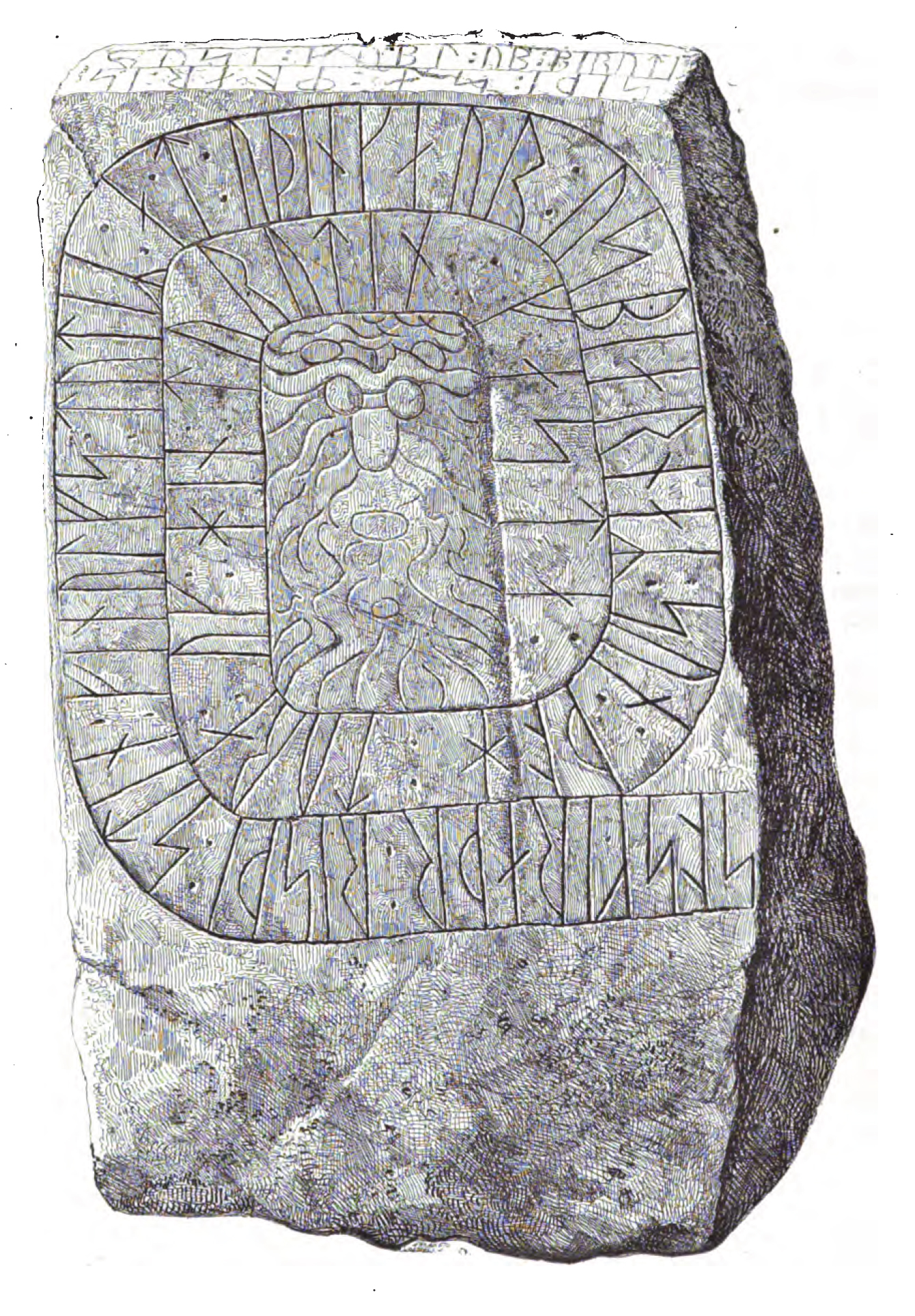 The A-side of the runestone DR 81. George Stephens lists this stone among those which bear the face of Thor. The inscription reads soskiriþr : risþi : stin : finulfs : tutiR : at : uþinkaur : usbiarnaR : sun : þoh : tura : uk : hin : turutin:fasta : siþi : sa : monr : is ¶ : þusi : kubl : ub : biruti. In English "§A Sasgerðr, Finnulfr's daughter, raised the stone, in memory of Óðinkárr Ásbjôrn's son, the valued and loyal to his lord. §B A sorcerer (be) the man who breaks this monument!" A number of runestones from Central Jutland shows symbols commonly referred to as a "mask". This symbol has never been positively identified, but P.V. Glob identified these "masks" as deterrents protecting travellers from evil spirits.